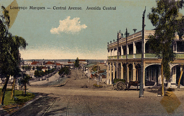 Photograph of colour postcard of Central Avenue, Lourenço Marques (now Maputo), c1905. Original image published by D. Spanos, P.O. Box 434, Lourenço Marques c1905.